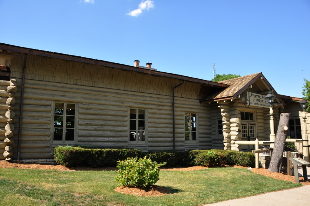 Exterior view of the Starved Rock Lodge at Starved Rock State Park, Illinois.